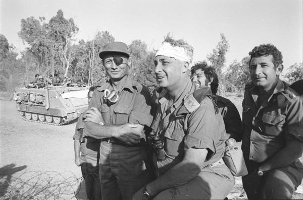 Ariel Sharon, People of Israel